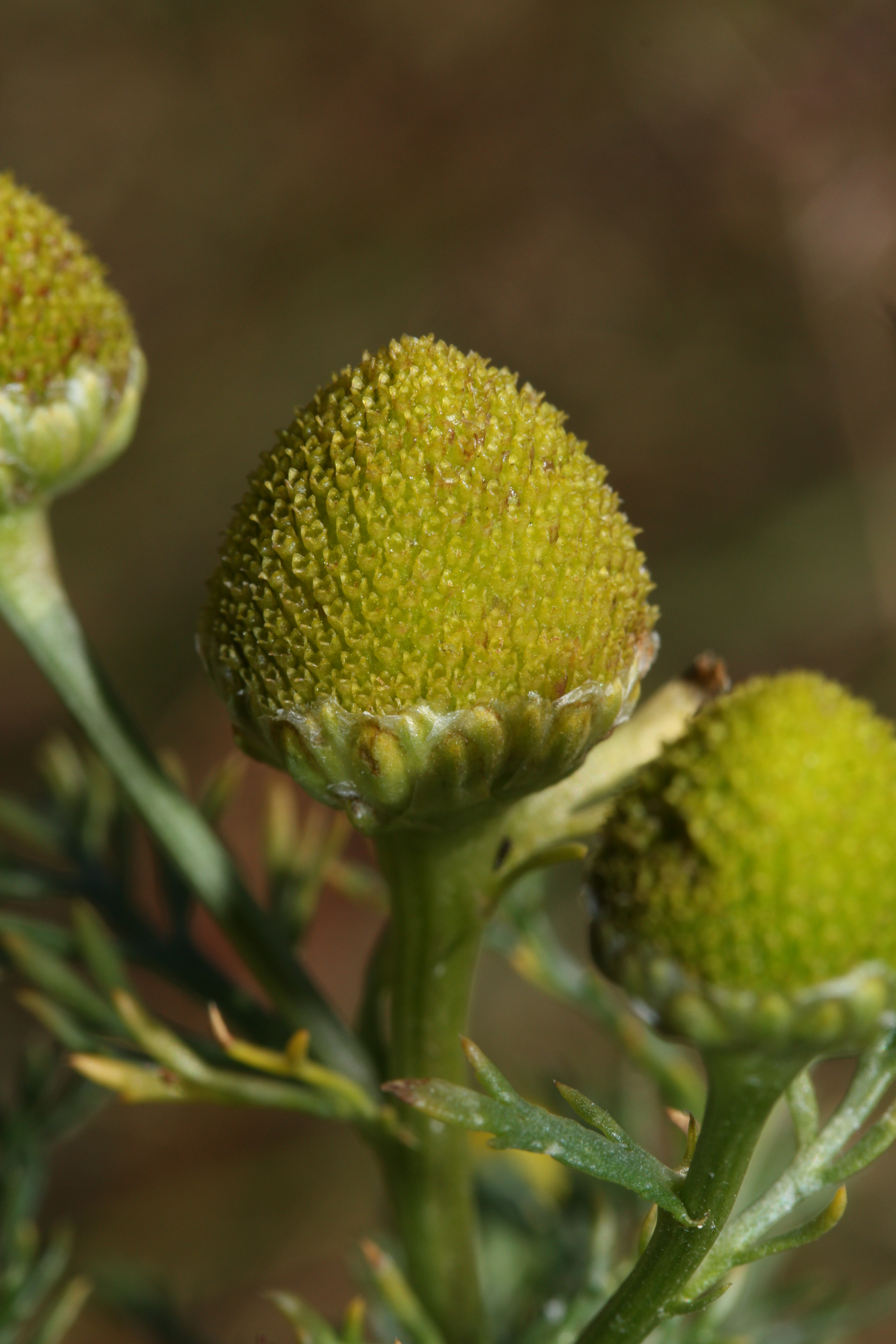 Disc Mayweed, Pineapple Weed